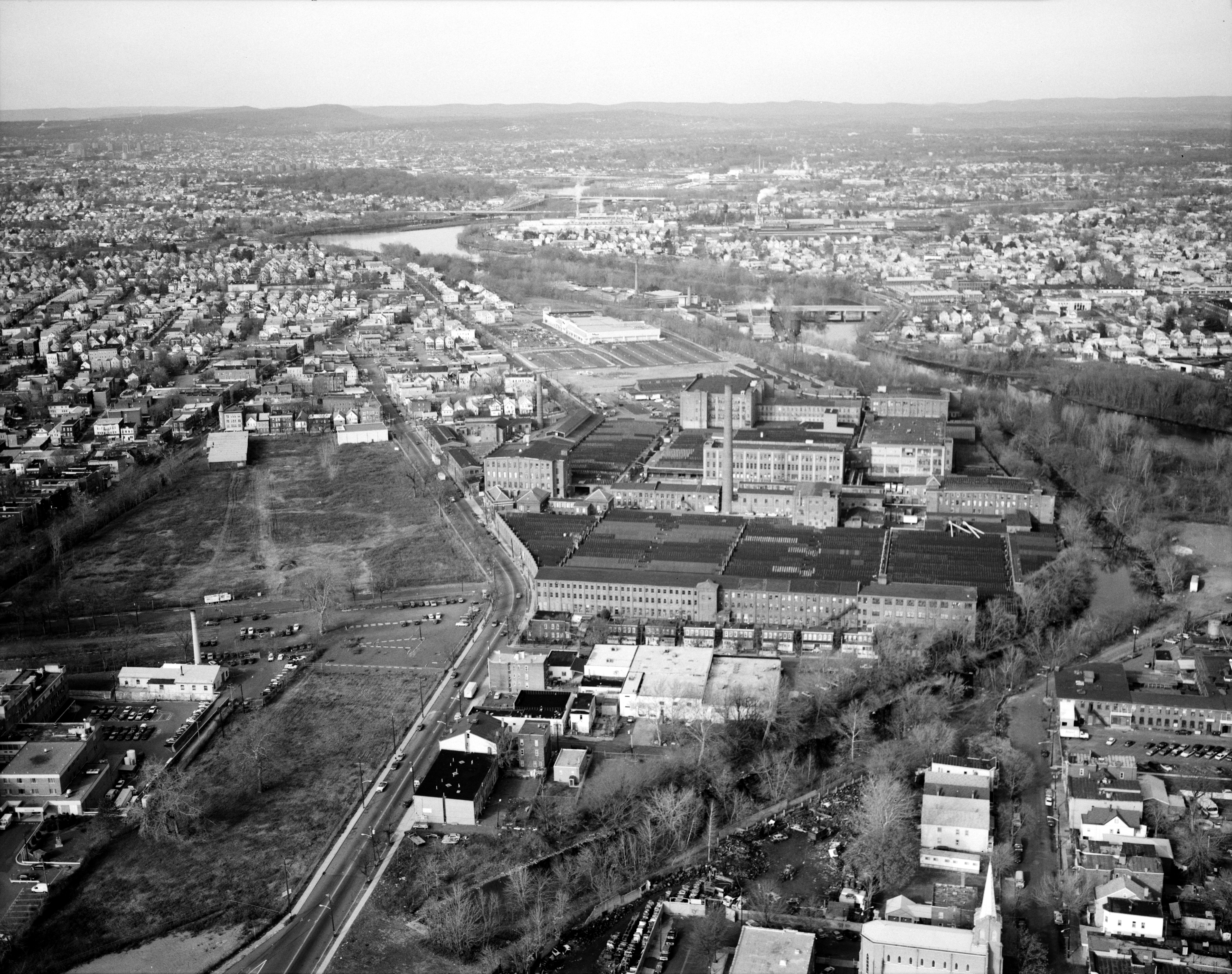 View of former Botany Worsted Mills complex (center of photo) in Passaic, New Jersey, looking north. The open portion of the Dundee Canal, which supplied water to the mills, runs along the right side of the complex. The mills operated from 1887 to the mid-20th century. Botany Worsted Mills is part of the Dundee Canal Industrial Historic District. Cropped photo.